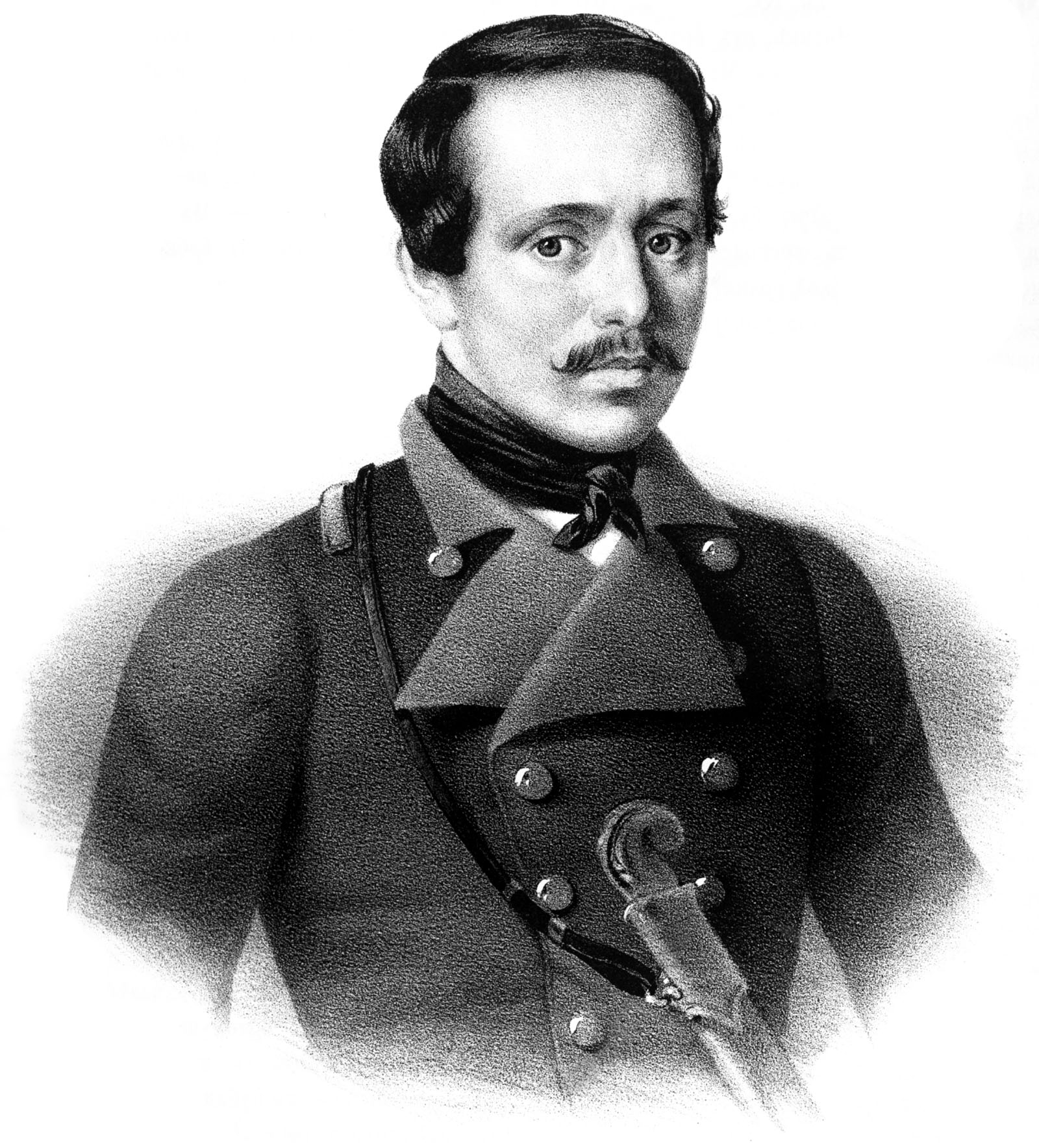 Russian poet Mikhail Yurievich Lermontov